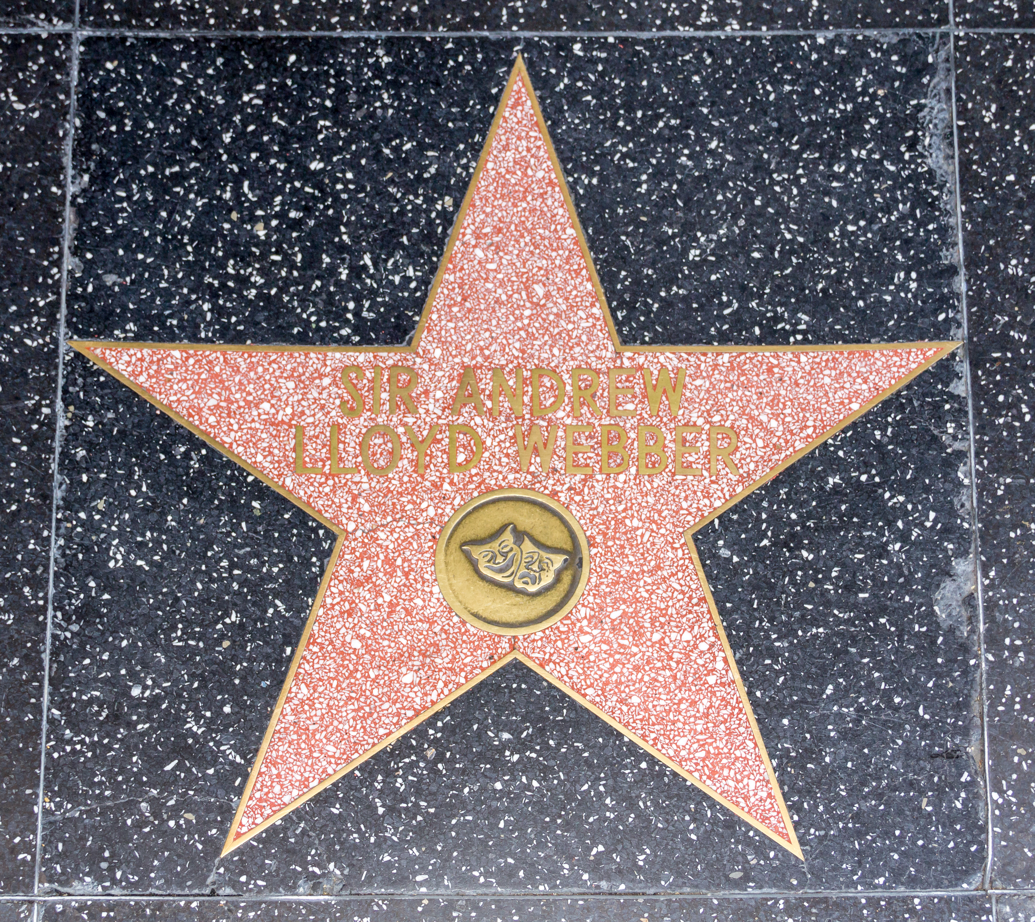 Star “Sir Andrew Lloyd Webber” at the Hollywood Boulevard in Los Angeles, California, USA